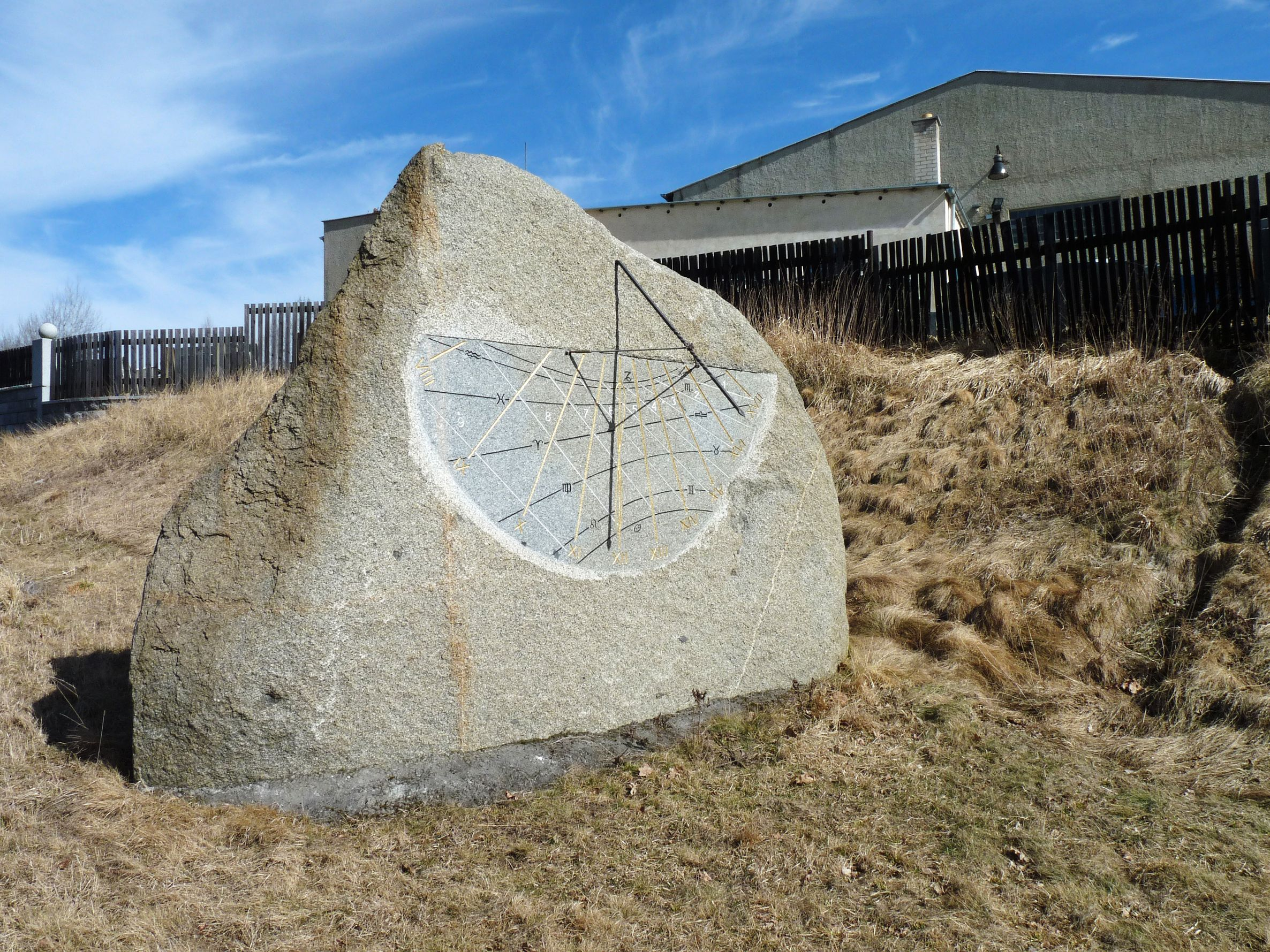 Sundial in the municipality of Slatina, Klatovy District, Czech Republic - the heaviest one in the country